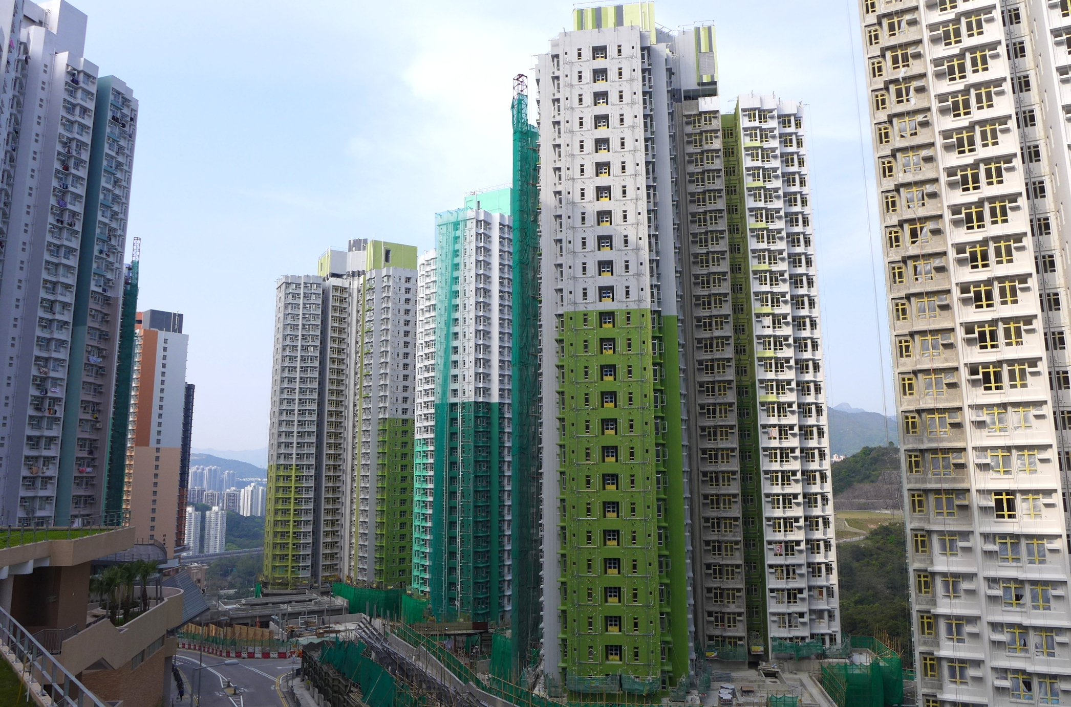 Shui Chuen O Estate Phase 3